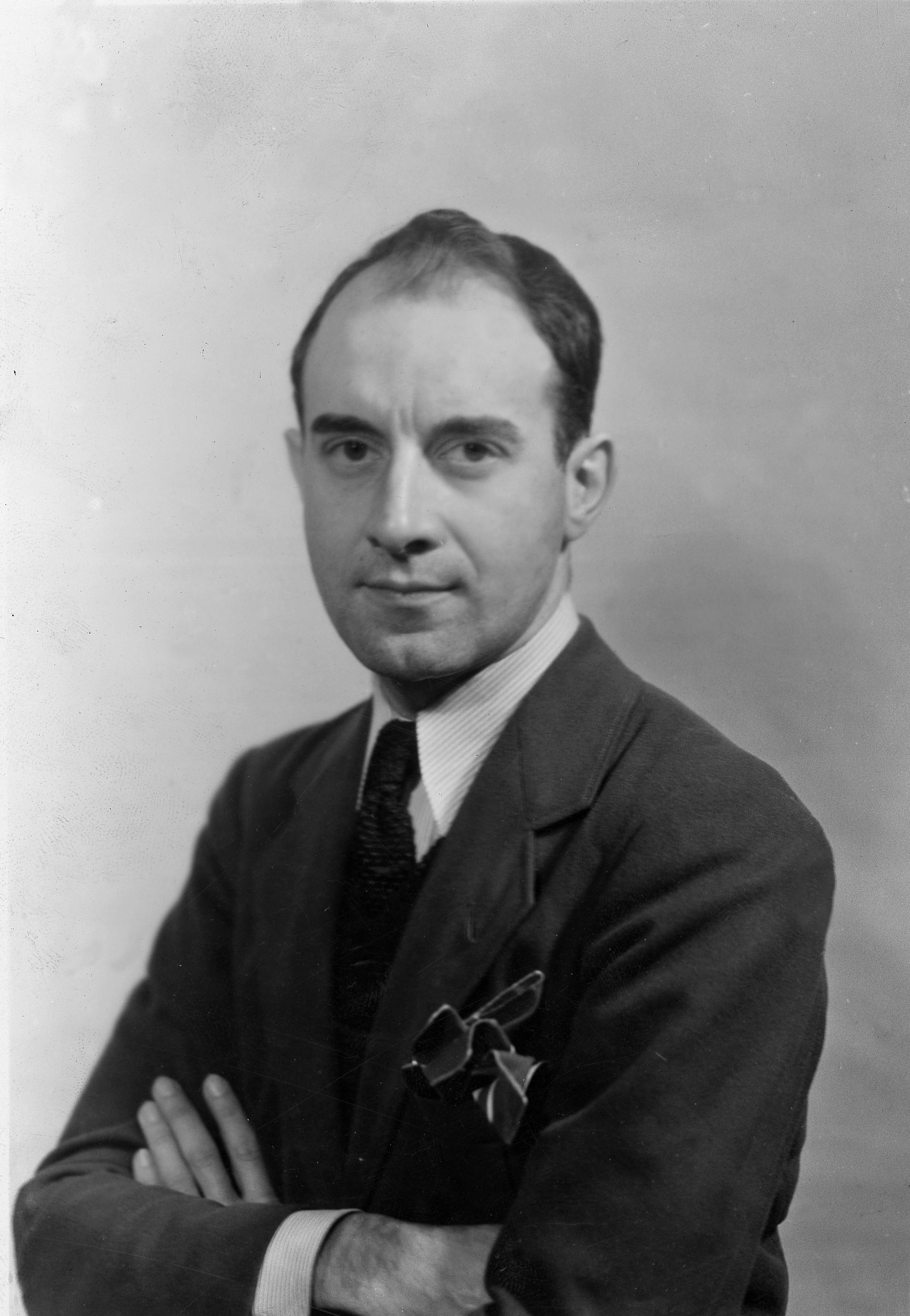 Portrait of Palmer Identification on verso (handwritten and stamped): Federal Art Project W.P.A.; Photographic Division; 13 East 37th St.; New York City William Palmer (portrait); Date: 4/13/37; Negative No.: P706; Photographer: Truehoff.Identification on accompanying label (typewritten): William C. Palmer Born in 1906, Des Moines, Iowa. Studied at Art Students League, Ecoleves Beaux Arts de Fontainbleau, France; Taught privately; did a mural for Queens Co. General Hospital, while on PWAP, from July to Oct., 1934. Studied fresco painting under Baudoun in 1927. Private instructor in technical facts on painting, chemistry of color, method, oil in tempera and Florentine guilding.